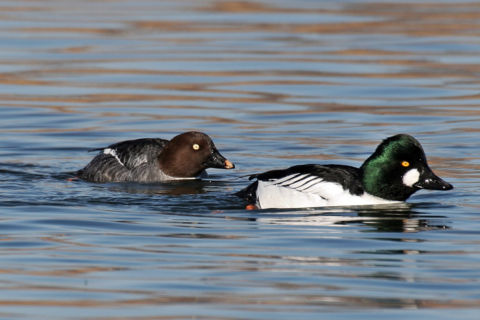 Common Goldeneye, Jan. 2006, Saitama JAPAN ; Japanese description:ホオジロガモ 2006年1月 埼玉県川本町 (投稿者自身による撮影)